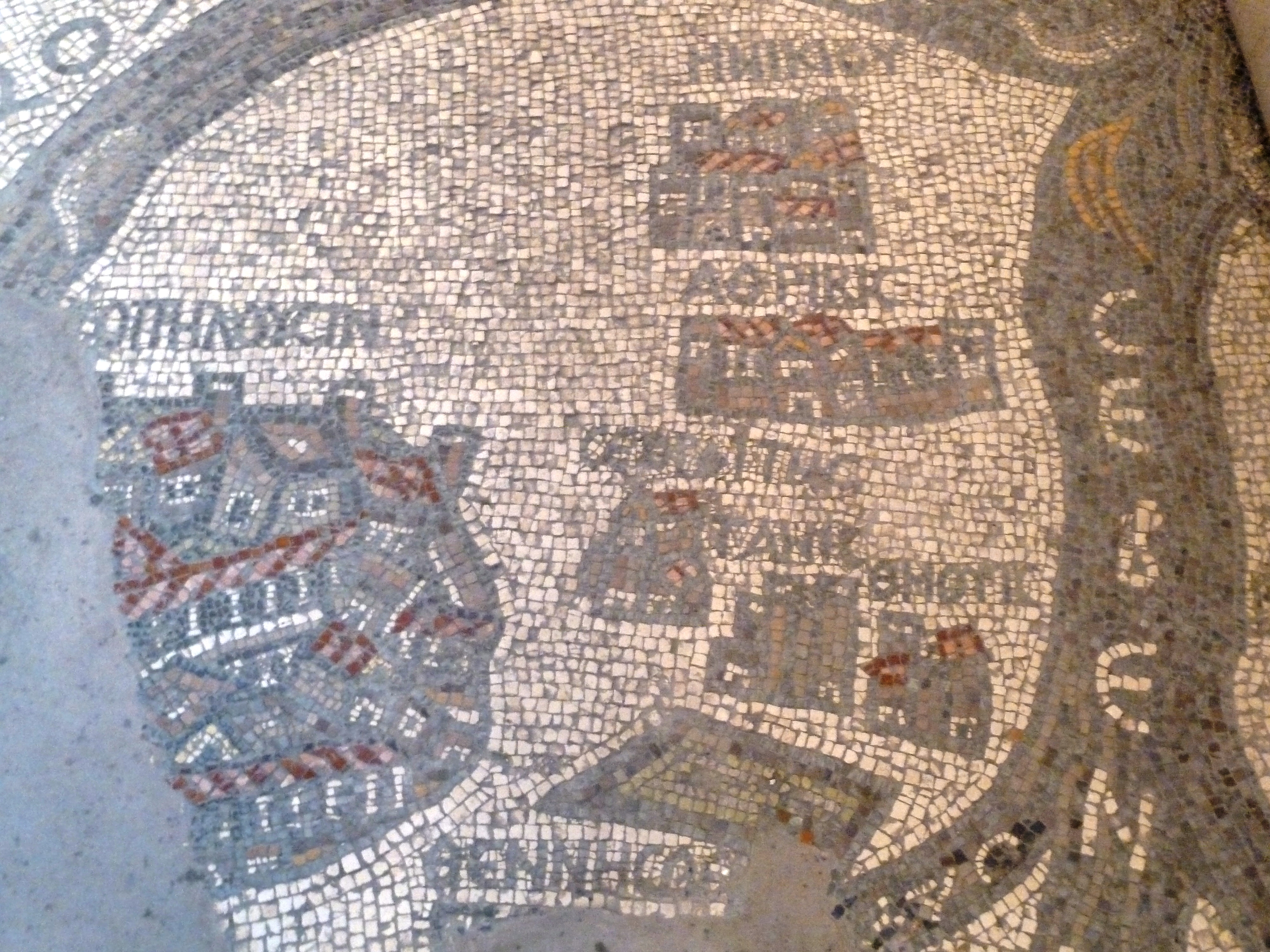 Byzantine floor mosaic map at St. George Church, Madaba, Jordan